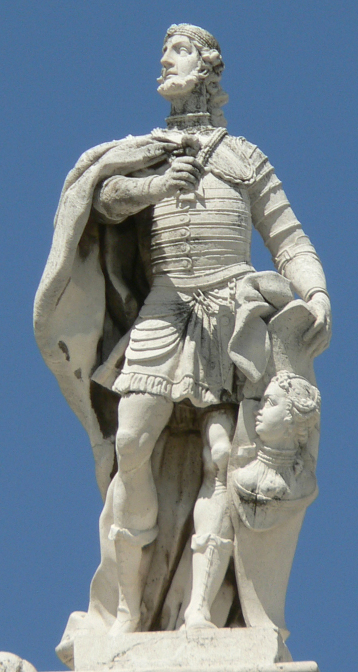 Statue of Ervigio, Visigoth king, on the balustrade of the Royal Palace of Madrid.